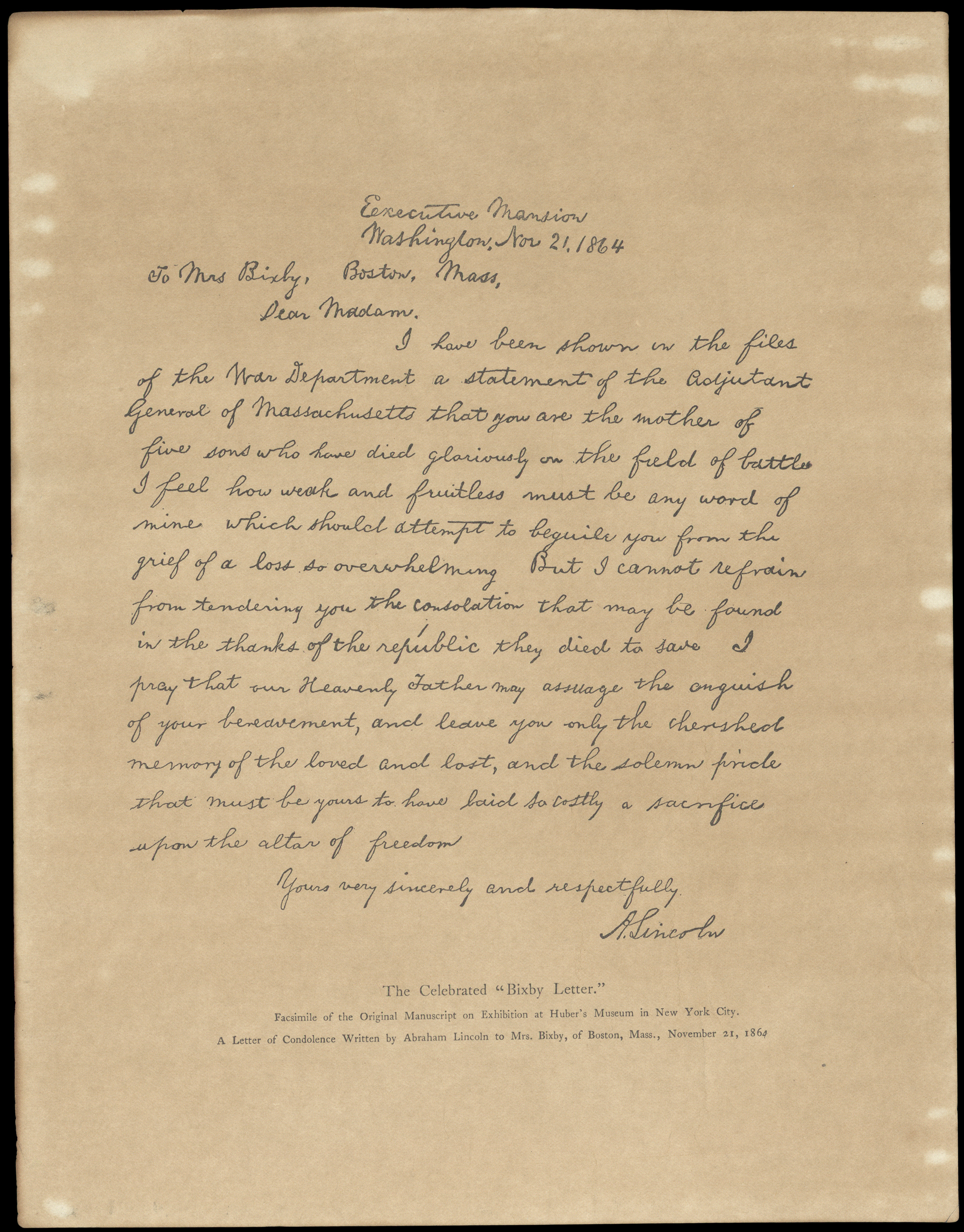 Huber's Museum facsimile of Abraham Lincoln's letter to Mrs. Bixby. Varies slightly from the original text published in Boston newspapers in 1864.